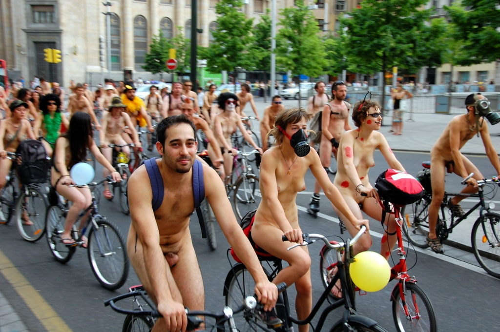 World Naked Bike Ride (WNBR) in Zaragoza (Spain)